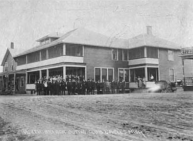 Douglas House (North Branch Outing CLub) c. 1915 Trout opener NRHP # 01001017